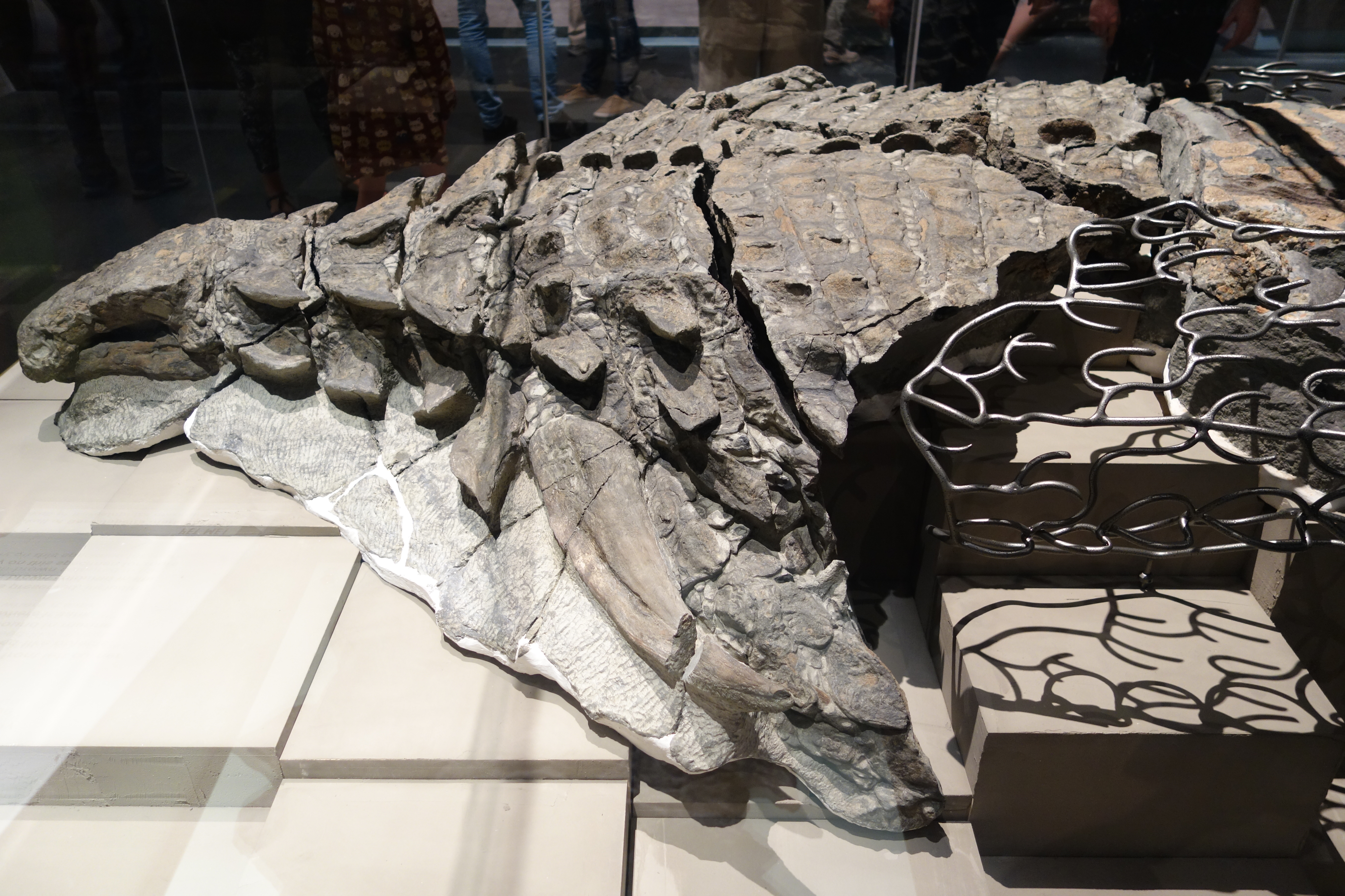 Borealopelta holotype (original). On display at the Royal Tyrrell Museum, Alberta, Canada.